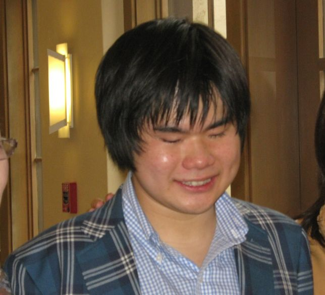 Japanese pianist Nobuyuki Tsujii at a recital in Carmel, California on October 9, 2011.